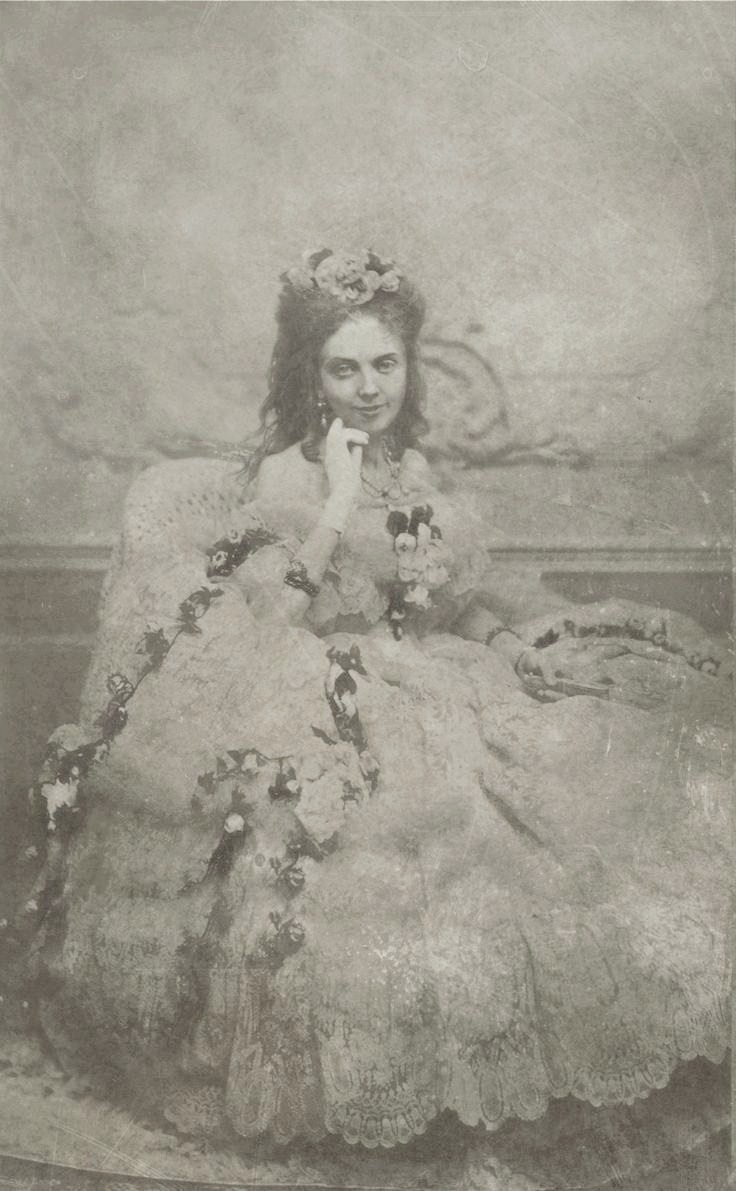 Esther Lachmann alias Thérèse Lachmann, later marquise de Païva